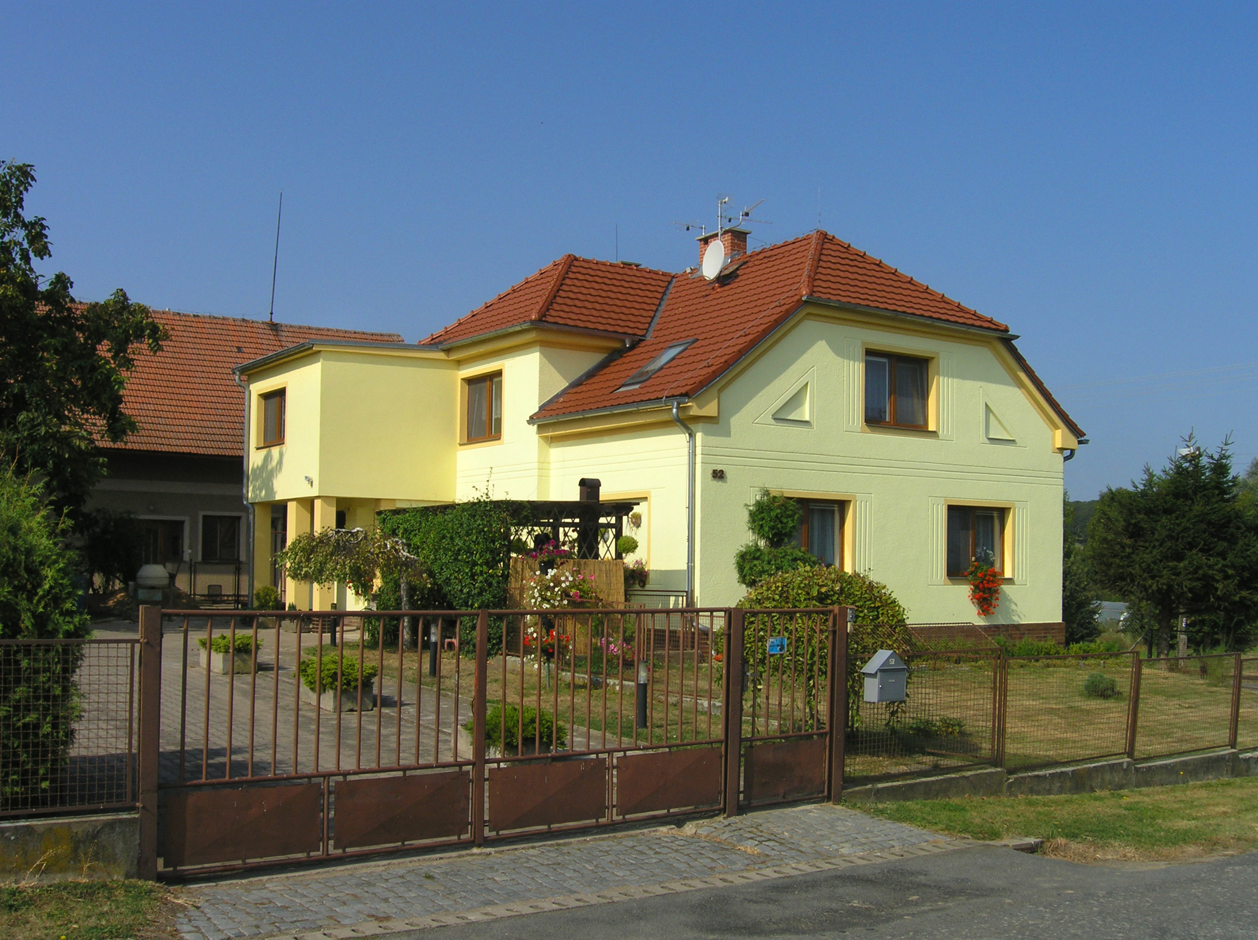 Nový Radostov, part of Radostov village, Czech Republic